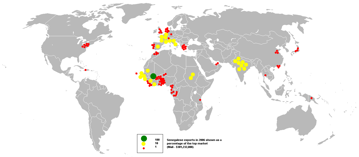 This bubble map shows the global distribution of Senegalese exports in 2006 as a percentage of the top market (Mali - $301,232,000). This map is consistent with incomplete set of data too as long as the top producer is known. It resolves the accessibility issues faced by colour-coded maps that may not be properly rendered in old computer screens. Data was extracted on 19th September 2007 from Based on :Image:BlankMap-World.png